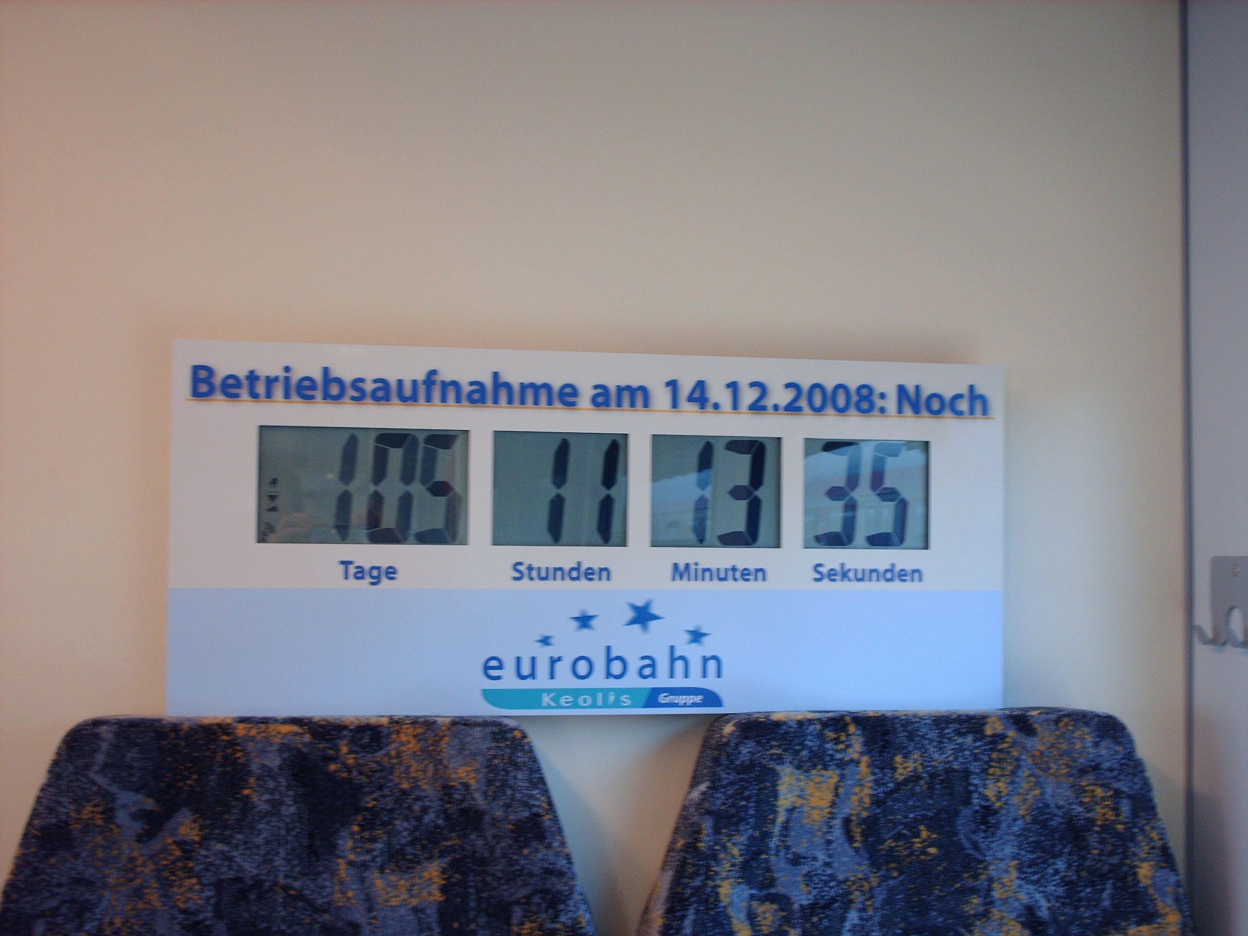 Countdown to Eurobahn’s start check usage